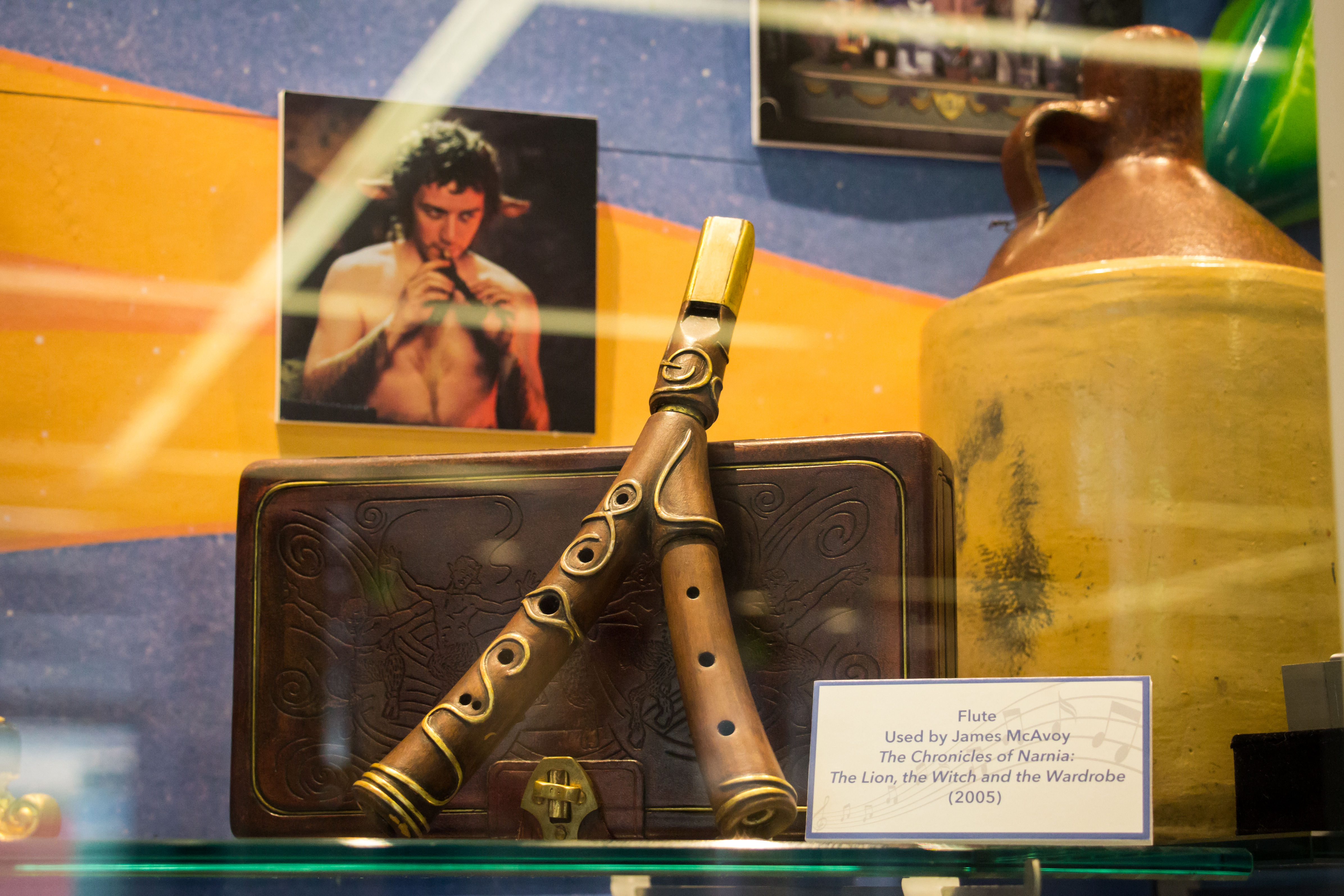 A flute used by James McAvoy in The Chronicles of Narnia: The Lion as part of a Walt Disney Archives display of Disney film, TV, and park music related memorabilia in the lobby of the Frank G. Wells Building where the Archives are housed.